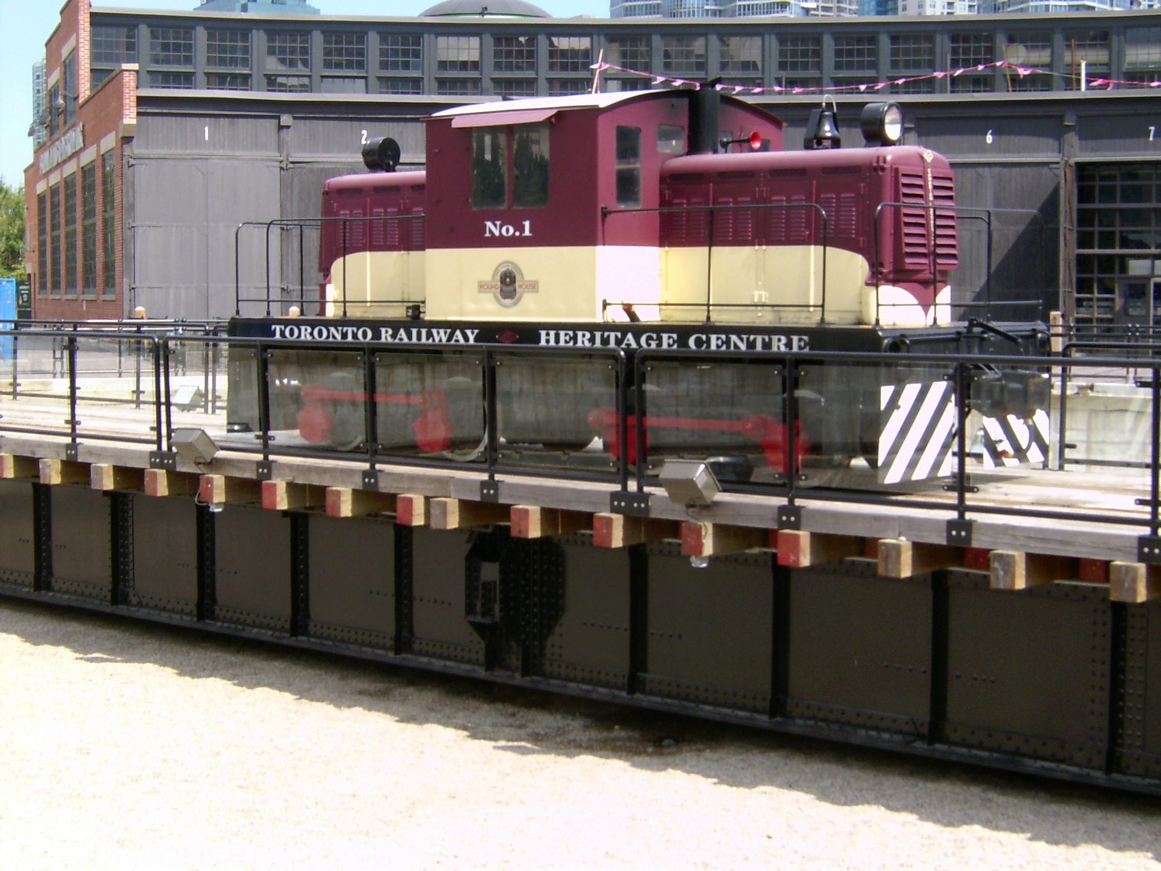 Sitting on the Museum's turntable, I believe this is the only active locomotive at the museum being used to spot other cars and locomotives. It is a 50-ton Whitcomb switcher manufactured by the Canadian Locomotive Company in 1950. It is painted in the colours of the Toronto, Hamilton and Buffalo Railway although it never saw service there.